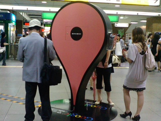 恵比寿駅 See where this picture was taken. [?] Google マップのリアルピンが都内に出現!? 2009年8月3日 - 8月9日 ([1]) note